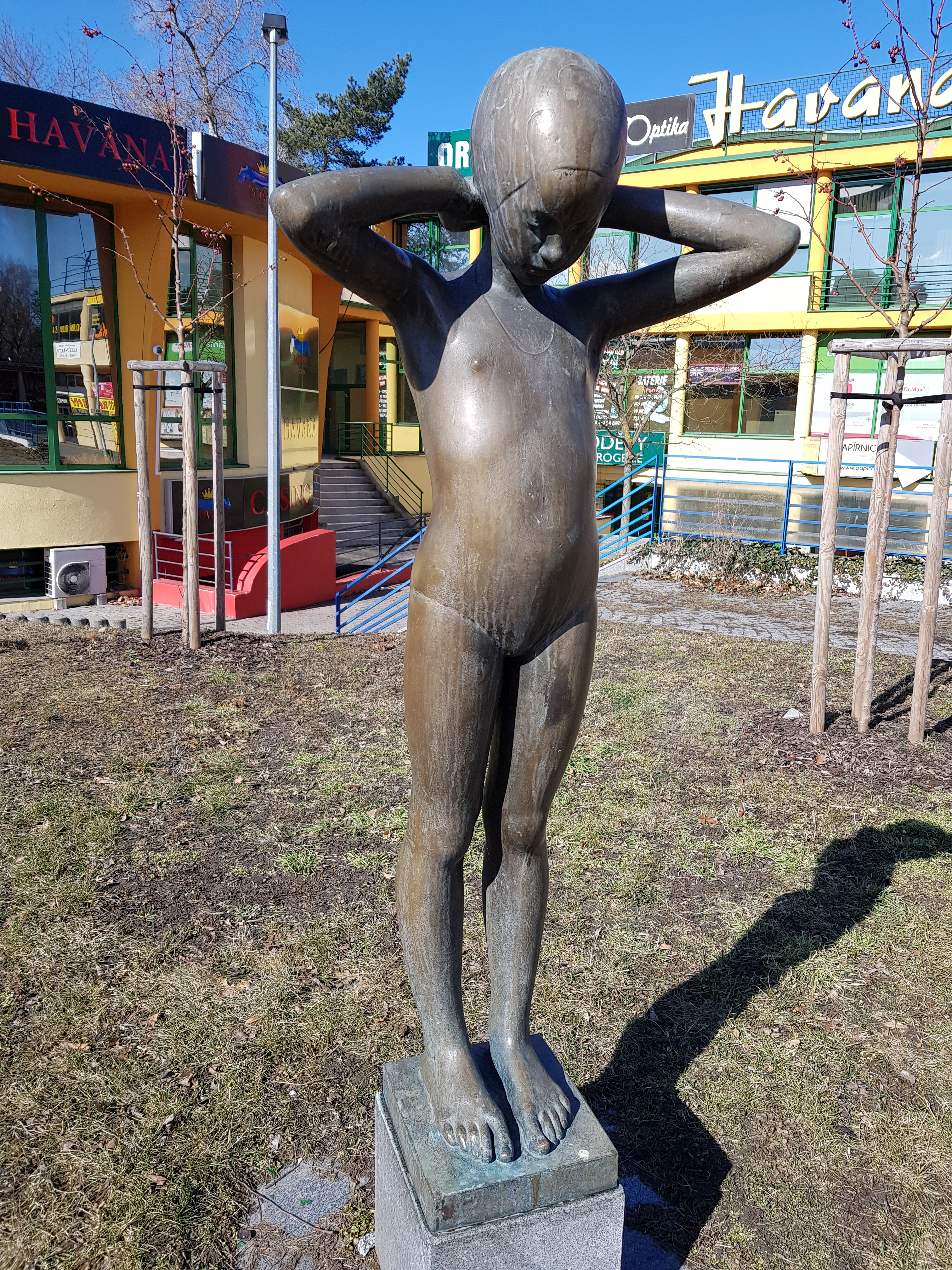 Sculpture called Swimming by Jaroslav Hladký from 1984 in Hloubětín